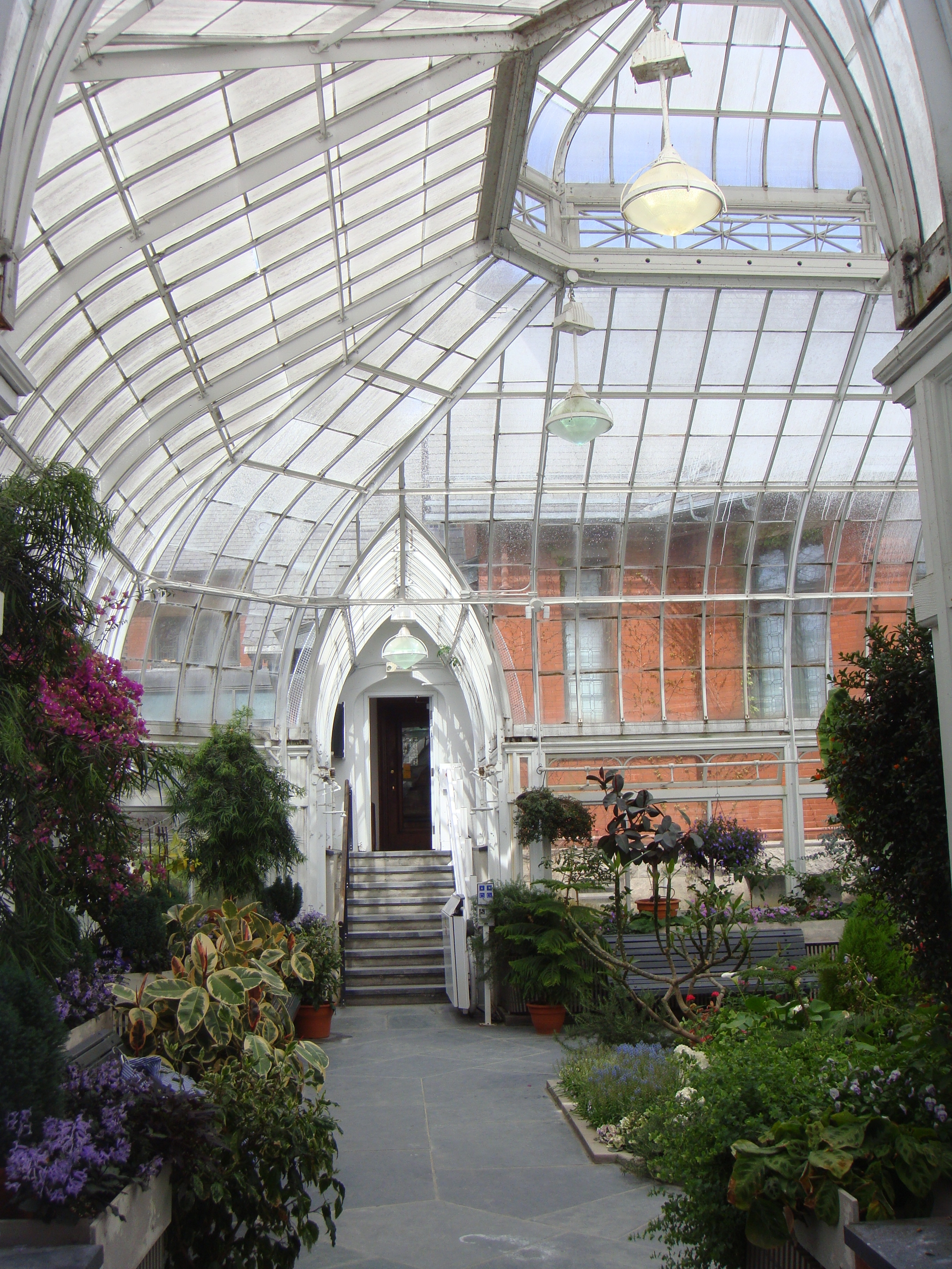 Victoria Hall and greenhouse in May 2015